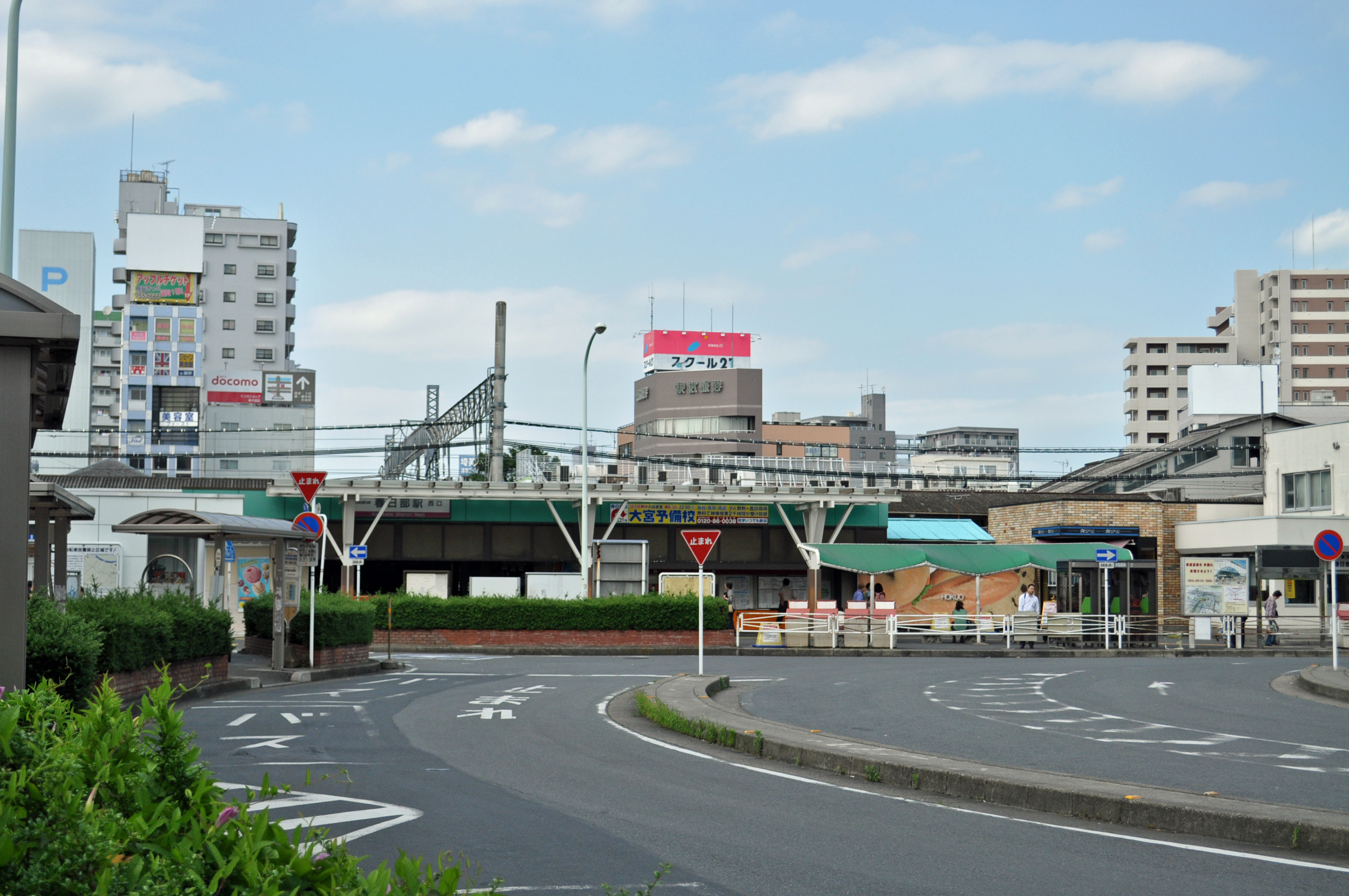 the west exit of the Kasukabe station